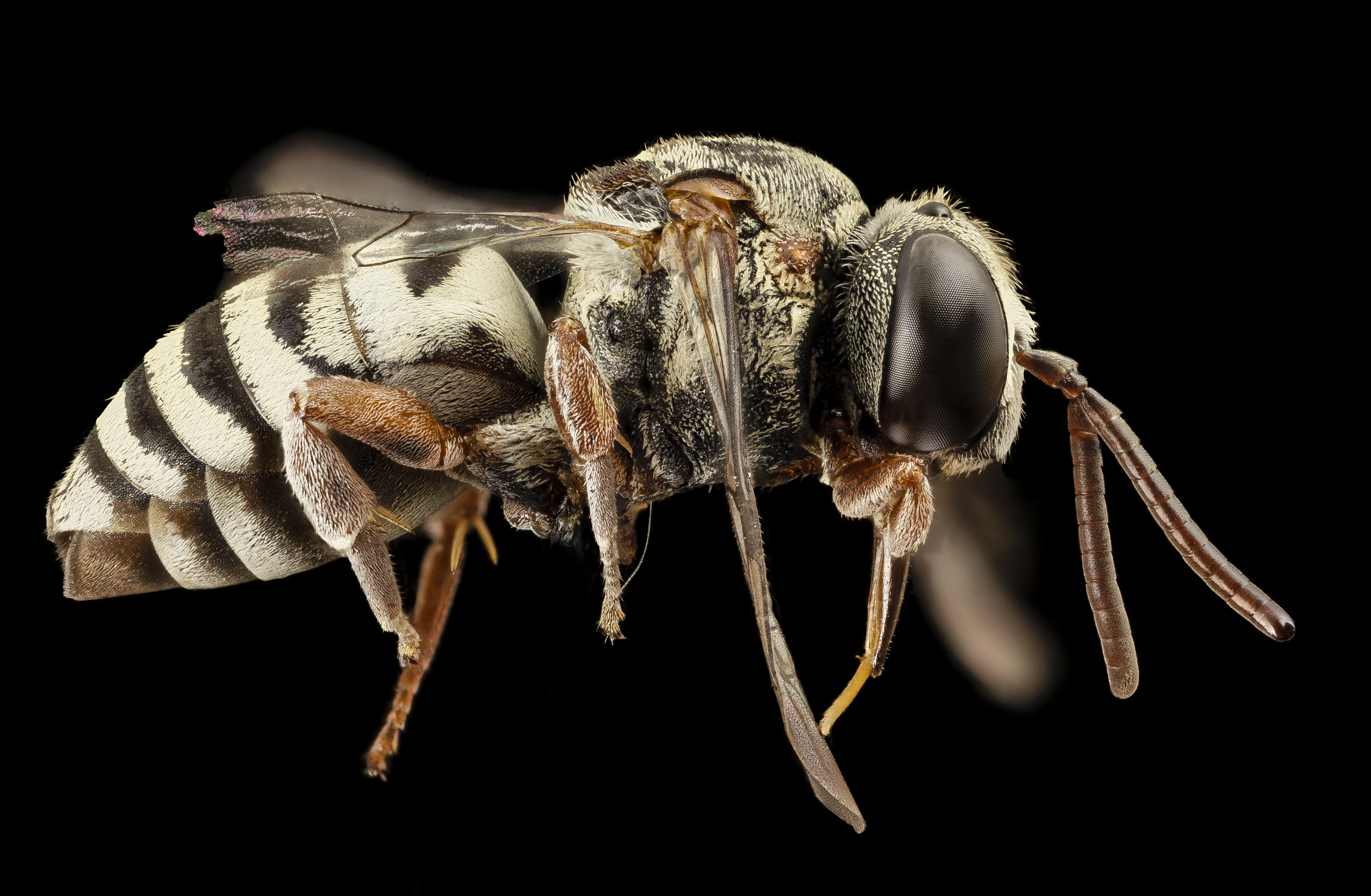 Ah, if angels were bees this would be one. However, if you were a Colletes bee you would not think so since the Angel Bee would invade your home, lay an egg, leave and later the Angel Bee baby would kill your baby and eat all your food. So life goes. 15:40, 3 February 2015 (UTC)15:40, 3 February 2015 (UTC) 0 15:40, 3 February 2015 (UTC)15:40, 3 February 2015 (UTC) All photographs are public domain, feel free to download and use as you wish. Photography Information: Canon Mark II 5D, Zerene Stacker, Stackshot Sled, 65mm Canon MP-E 1-5X macro lens, Twin Macro Flash in Styrofoam Cooler, F5.0, ISO 100, Shutter Speed 200 The grass so little has to do, A sphere of simple green, With only butterflies to brood, And bees to entertain, - Emily Dickinson Contact information: Sam Droege 301 497 5840